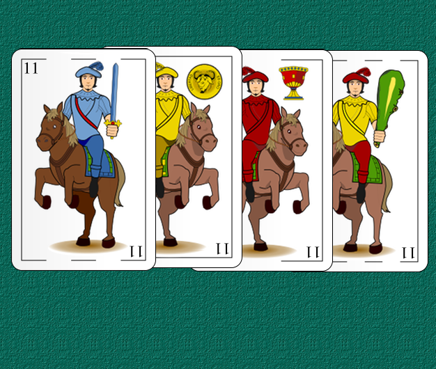 The four knights or caballos of the Spanish deck of cards